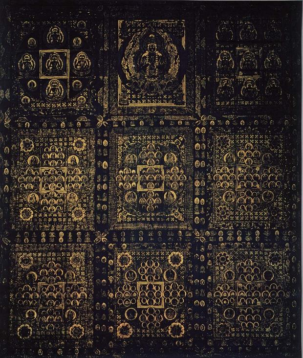 Mandala of the Diamond Realm from Mandala of the Two Realms (紺綾地金銀泥絵両界曼荼羅図, konayajikingindeie ryōkaimandarazu) at Kojimadera (子嶋寺), Takatori, Nara, Japan. One of two hanging scrolls. Gold and silver paint on dark blue silk. The scrolls have been designated as National Treasure of Japan in the category paintings.